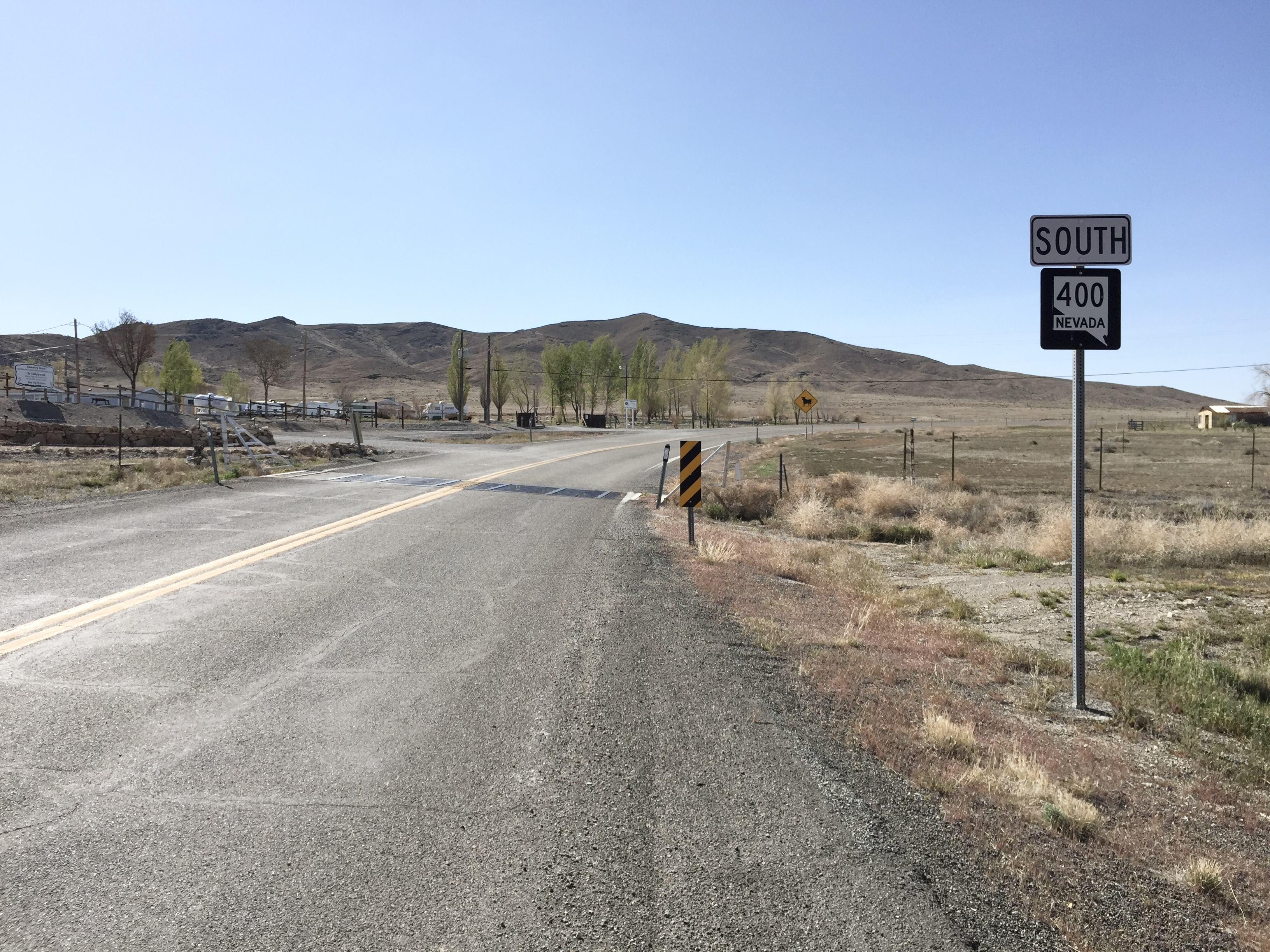 View south from near the north end of Nevada State Route 400 in Mill City, Nevada